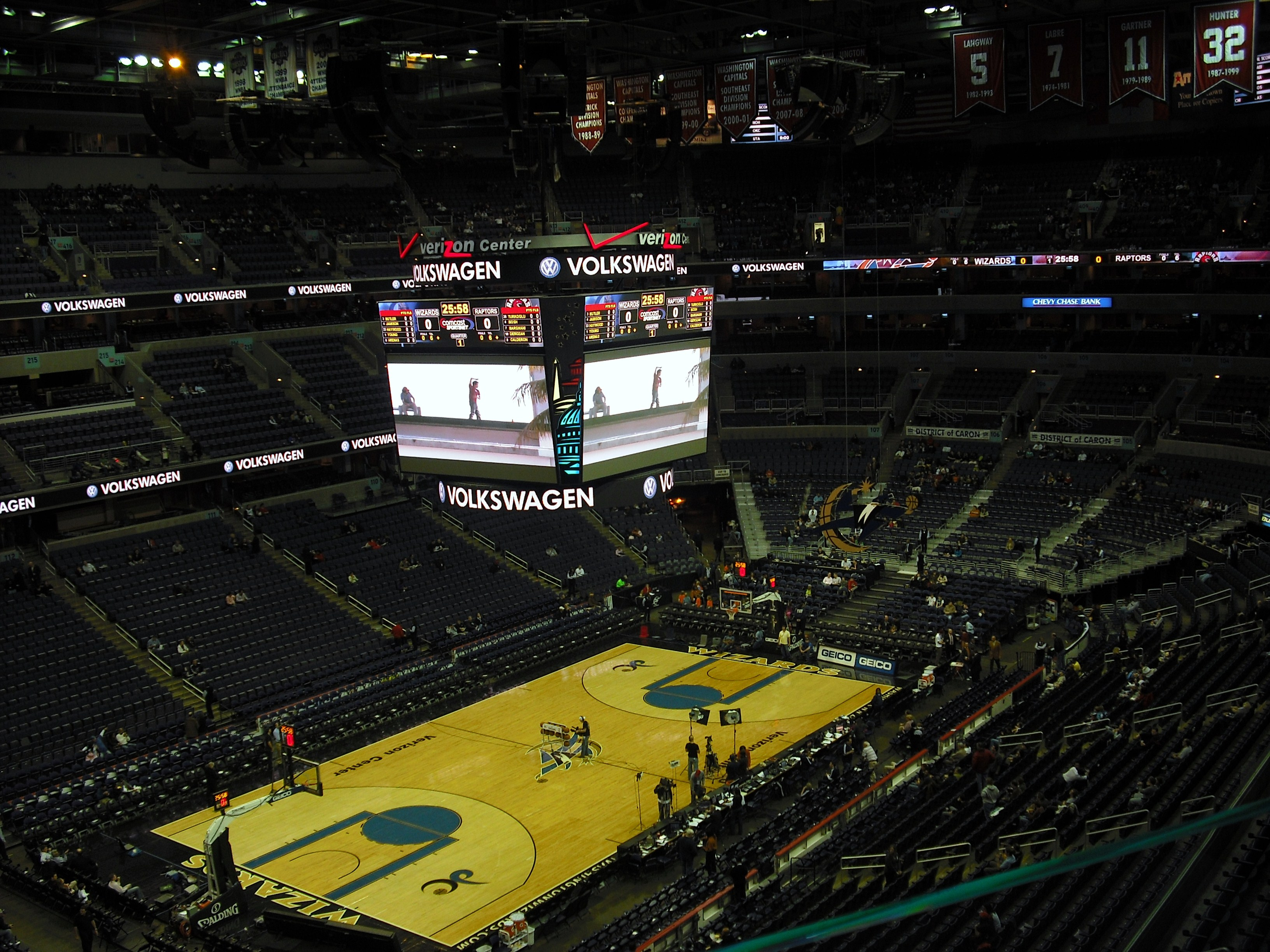 Verizon Center